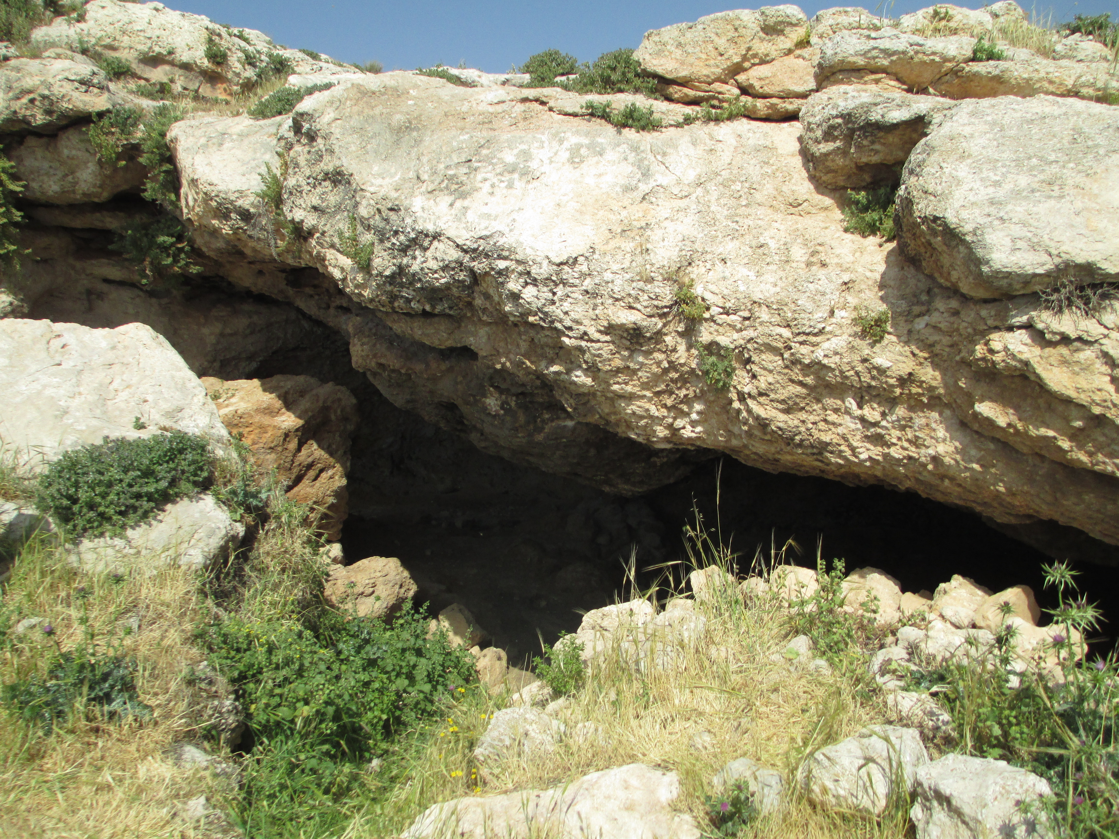 The Cave memorial